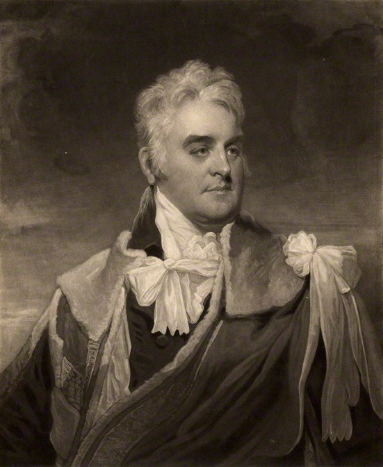 Portrait of Richard Griffin, 2nd Baron Braybrooke (1750–1825), English politician and peer.